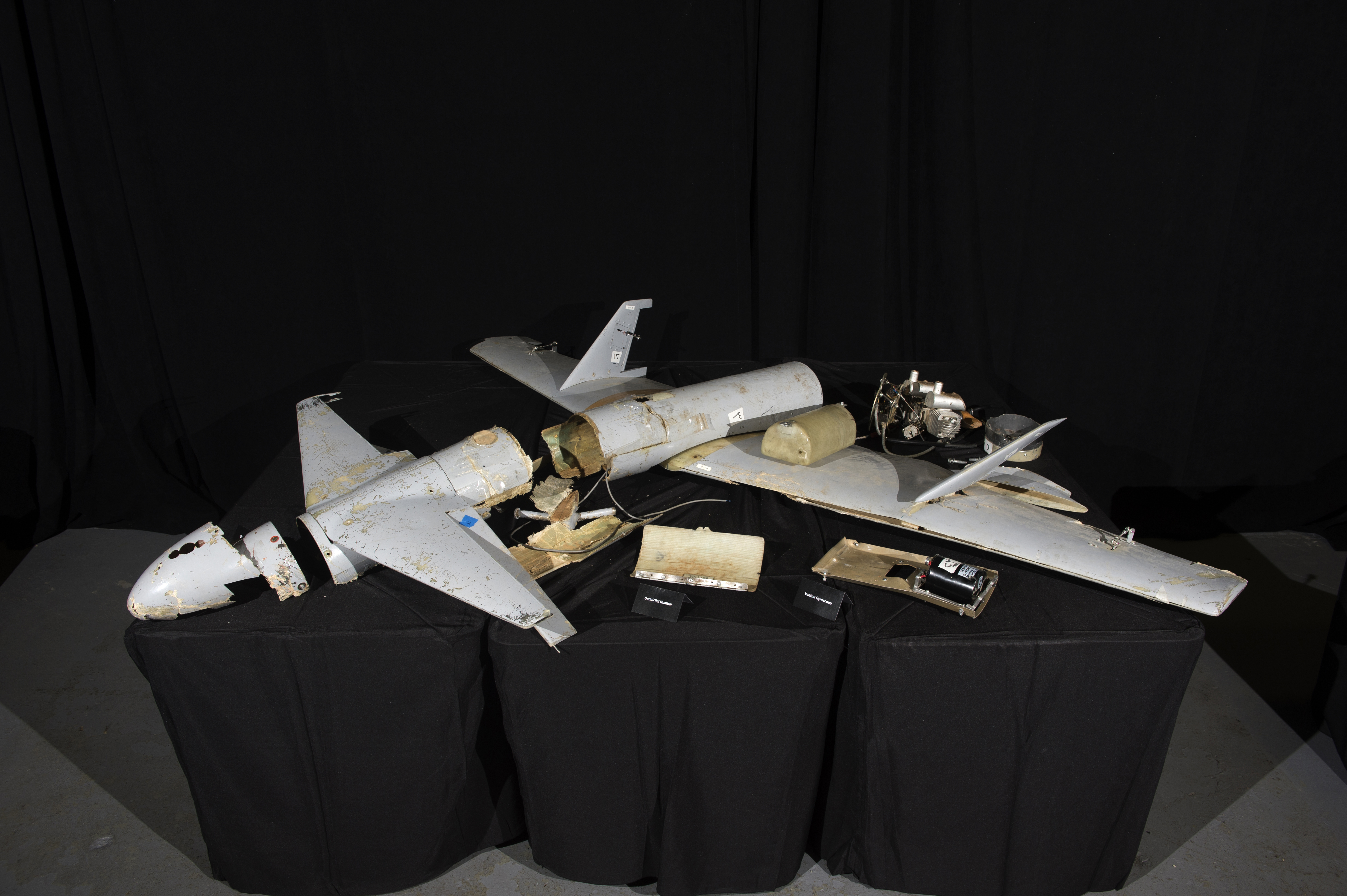 A display shows Iranian unmanned aerial vehicles components at Joint Base Anacostia-Boling in Washington, D.C. May 2, 2018. The display accompanies a multi-national collection of evidence proving Iranian weapons proliferation in violation of United Nations resolutions 2216 and 2231. (DoD photo by EJ Hersom) This is a Qasef-1 recovered from Yemen.